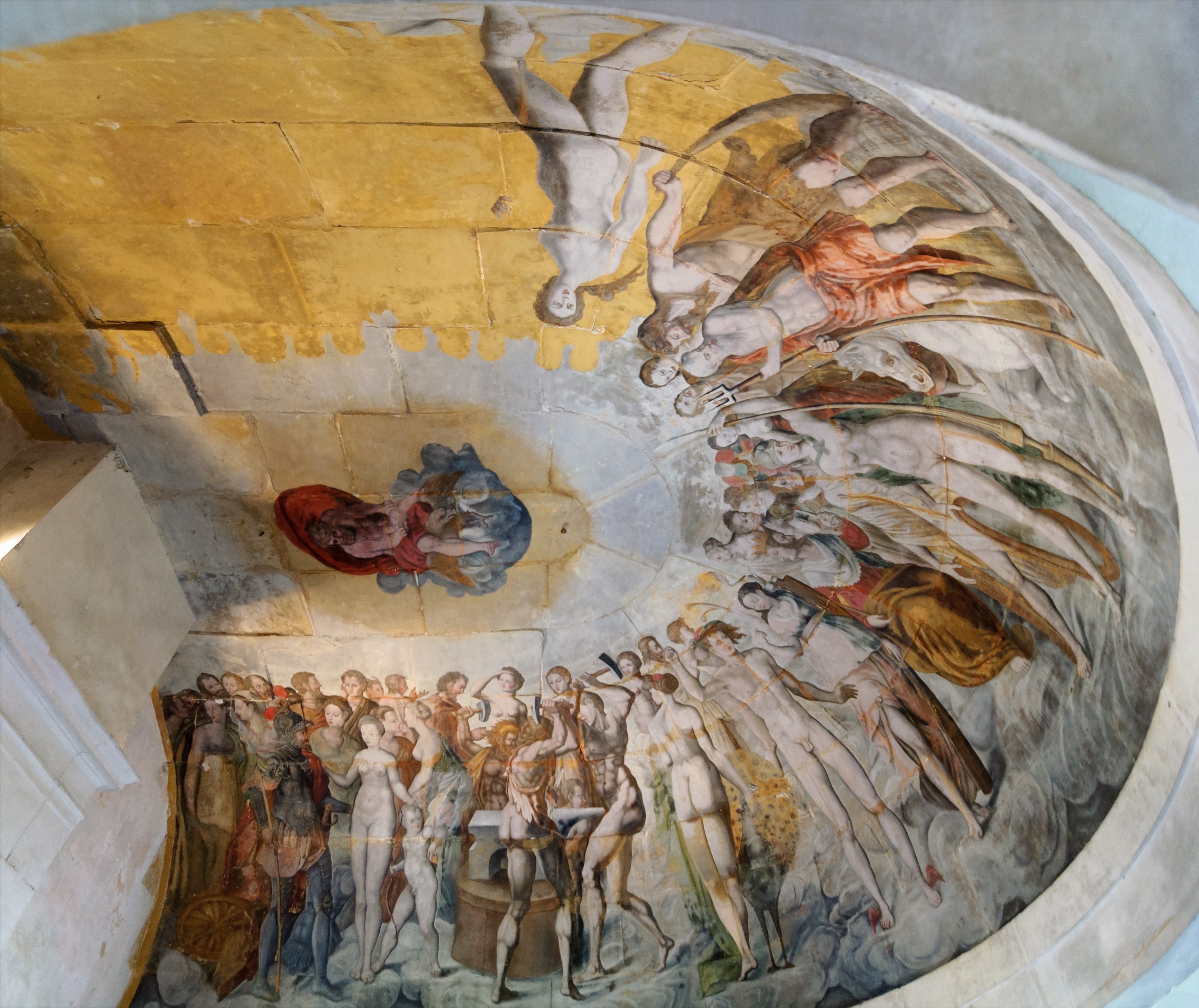 Château de Tanlay, Yonne department, Burgundy, France : frescoes at the second floor of the Tour de la Ligue, depicting political figures of the time of French Wars of Religion as Olympian gods and goddesses.